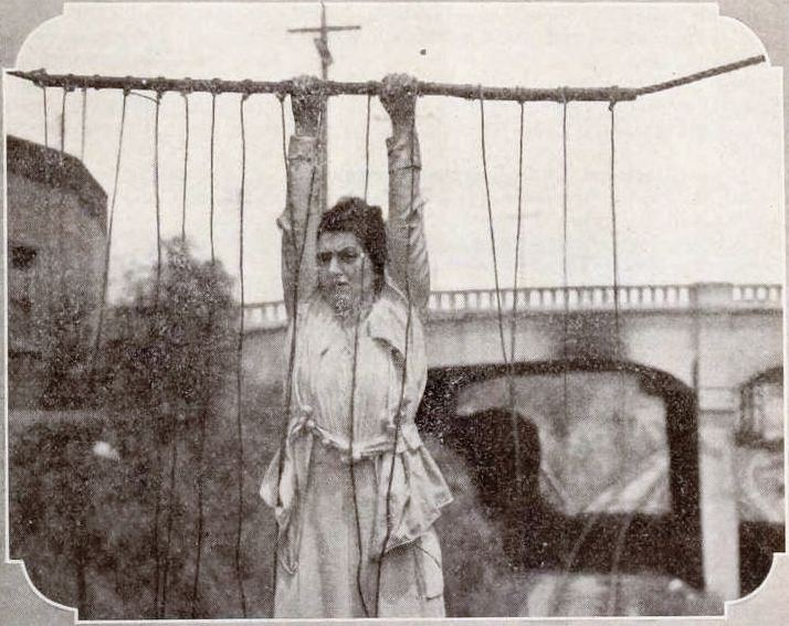 Still from the American action film serial The Lost Express (1917) with Helen Holmes, on page 19 of the September 1, 1917 Exhibitors Herald